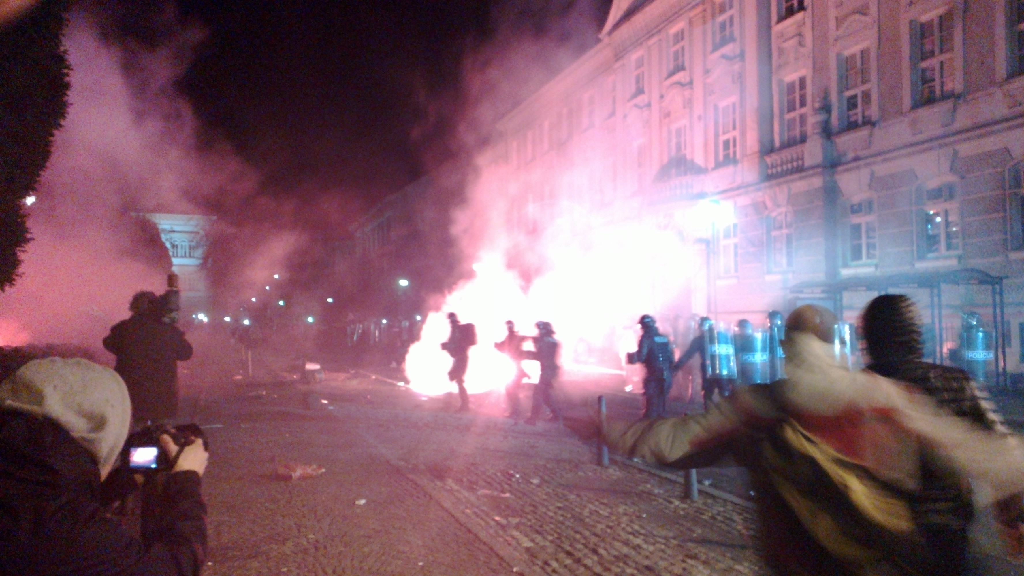 Violence between the protesters and the police on 3 December 2012.